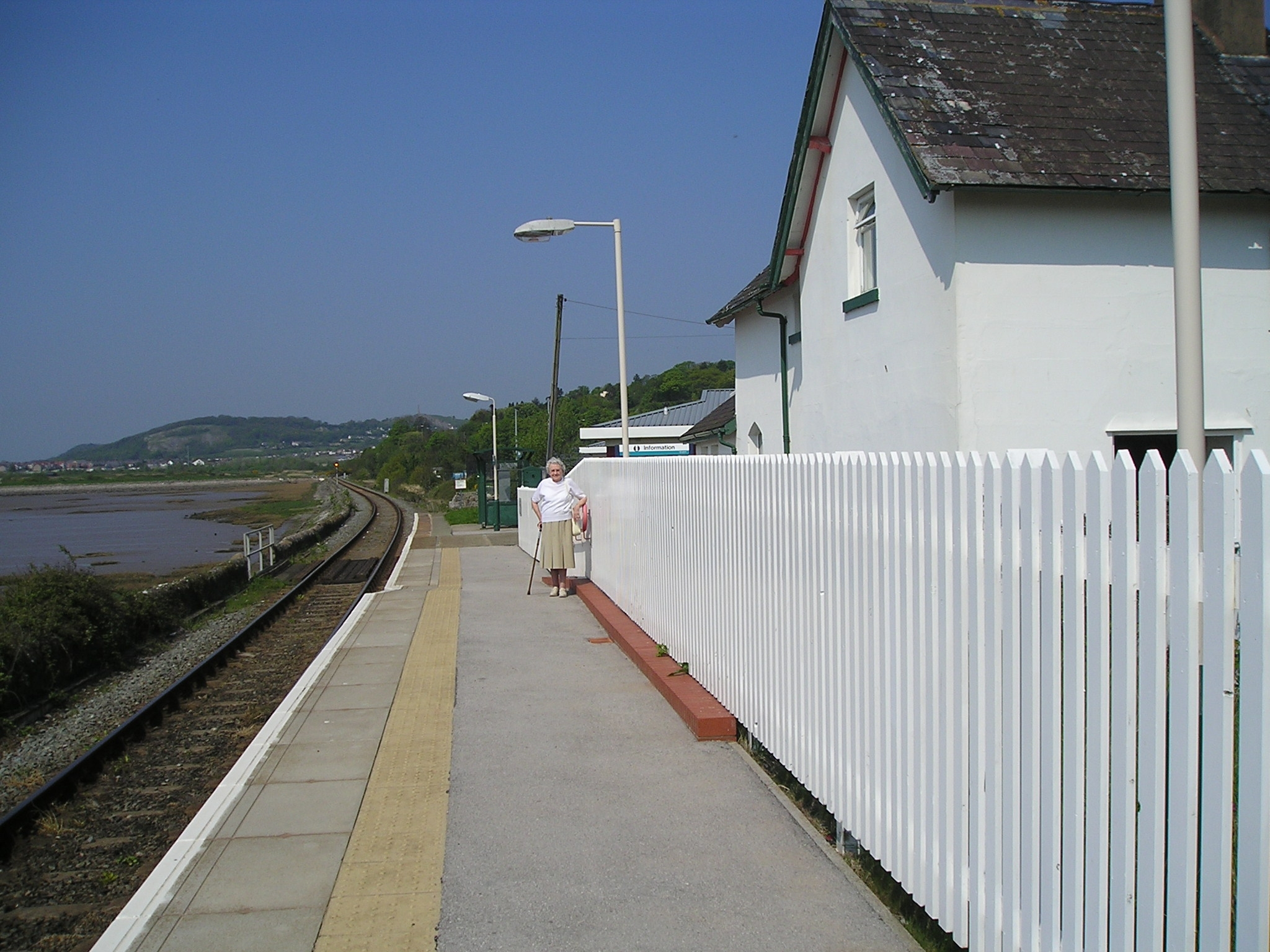 Glan Conwy station is a request stop on the Conwy Valley railway line in northern Wales.